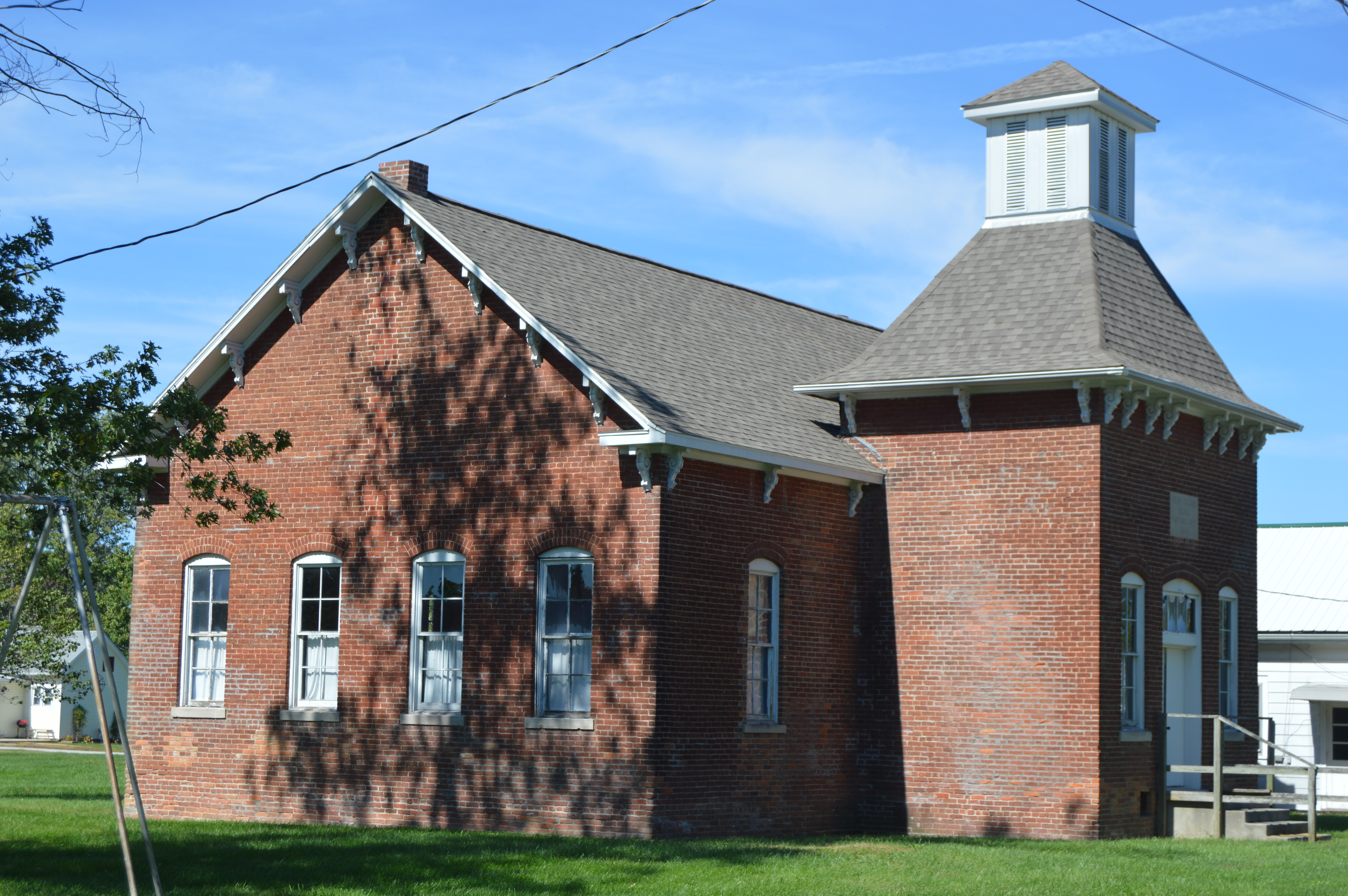 Front and southern side of the New Goshen District No. 2 School, located at 9620 Rangeline Place in New Goshen, Indiana, United States. Built in 1888, it is listed on the National Register of Historic Places.